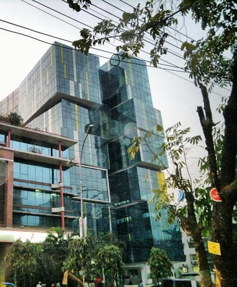 Citigroup Bangladesh head office, South Gulshan Avenue, Dhaka